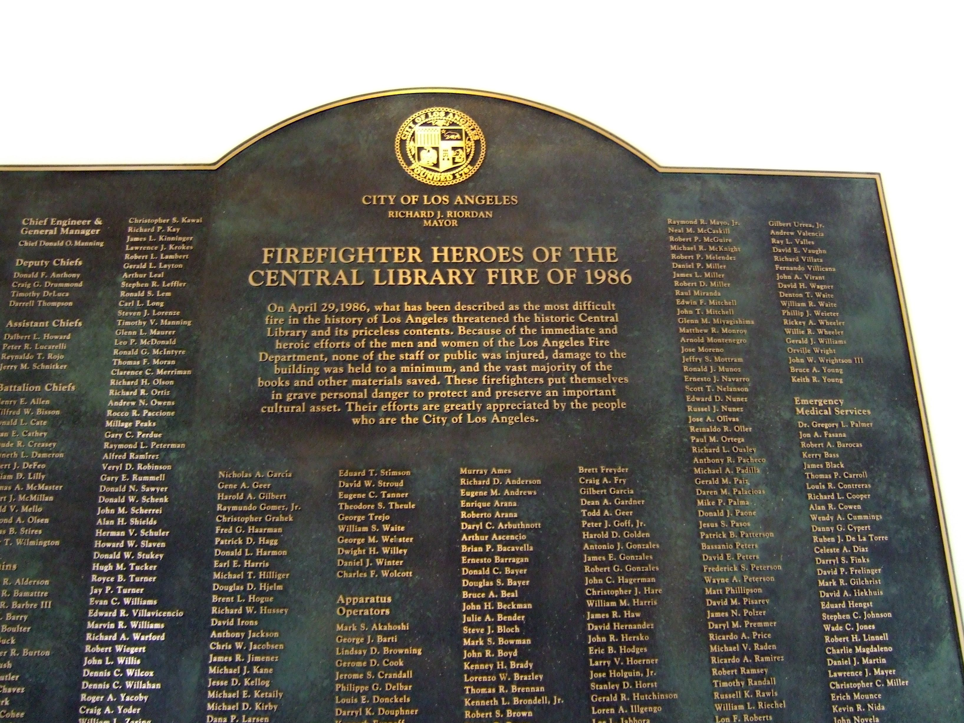 Plaque in the Los Angeles Central Library with names of firefighters working the library fire of 1986 Other information Photo by George Garrigues.